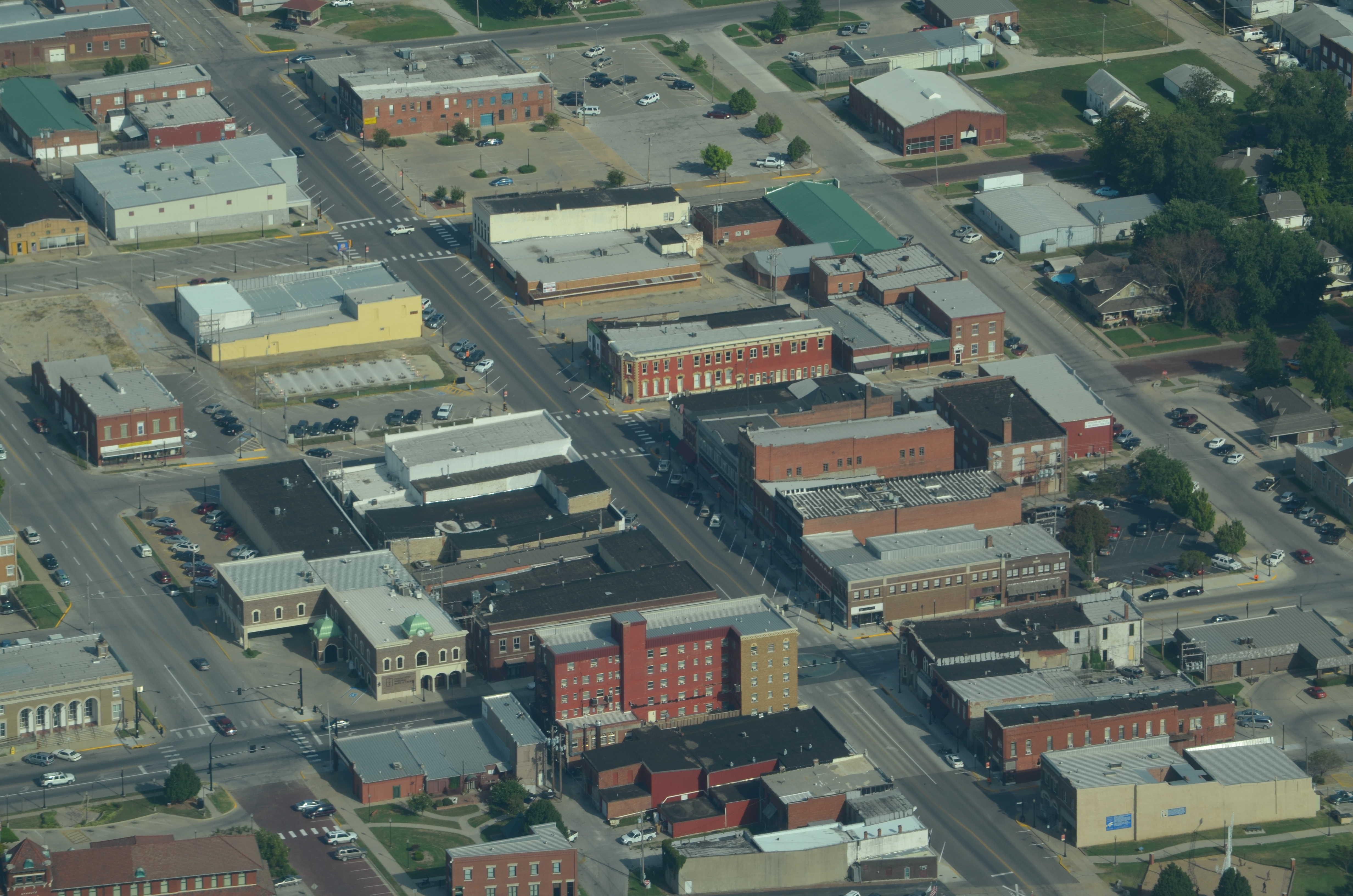 Aerial photo of Chanute, Kansas